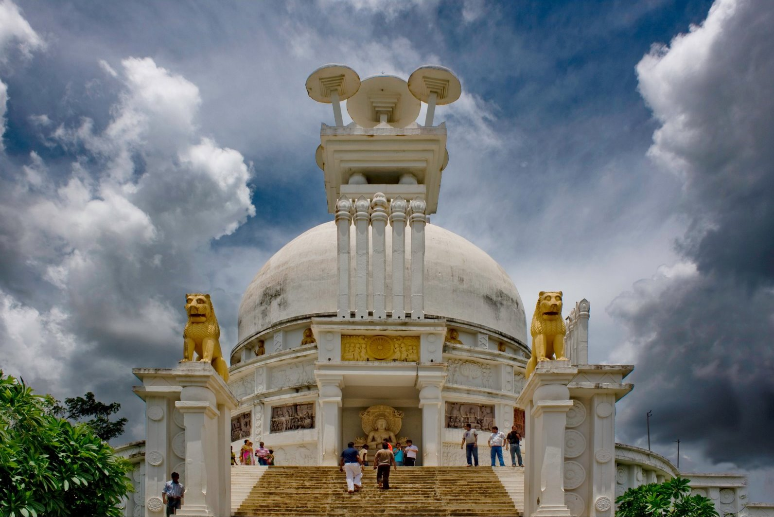 The Shanti Stupa or the peace pagoda on the Dhauli Giri hills, Bhubaneswar. Located 8 km away from Bhubaneswar and built through Indo-Japanese collaboration, the stupa looks down on the plains of river Daya that bore witness to the gruesome war waged on Kalinga by the Mauryan emperor Ashoka the Great. It was here that Ashoka, full of remorse after the Kalinga War in 261 BC, renounced his blood-thirsty campaign and turned to Buddhism. His edicts at Dhauli are remarkably well preserved, despite the fact that they date back to the 3rd century BC.